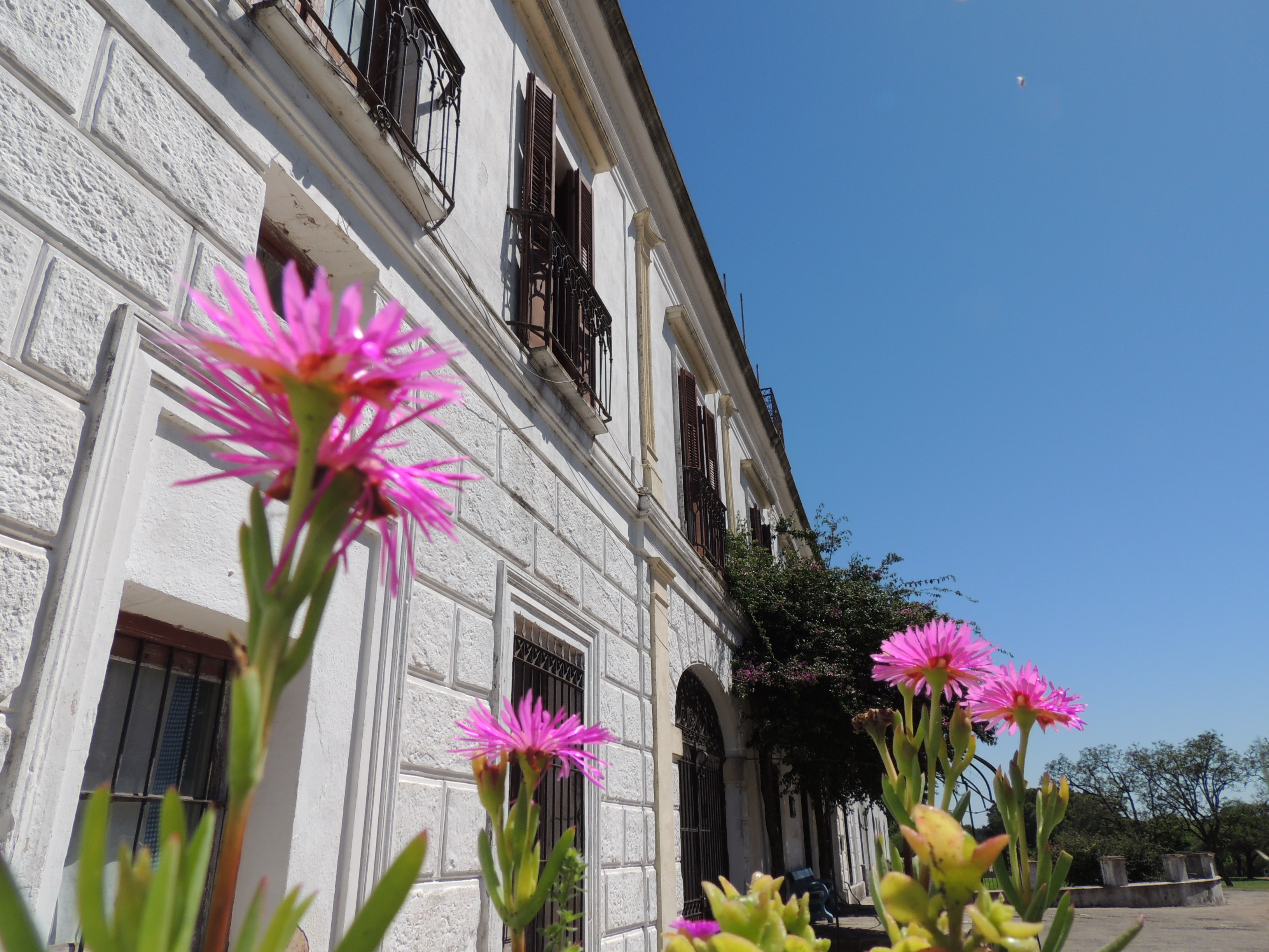 Frente castillo Mauá